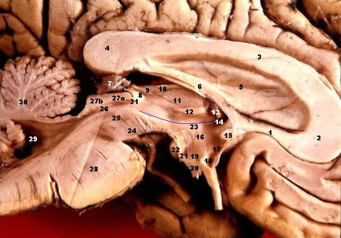 Human brain left - midsagitttal view - closeup Corpus callosum, Rostrum Corpus callosum, Genu Corpus callosum, Corpus Corpus callosum, Splenium Septum pellucidum Fornix, Corpus Glandula epiphysialis Recessus pinealis Habenula Stria medullaris thalami Thalamus (Pars dorsalis) Adhaesio interthalamica Plexus choroideus Foramen interventriculare Comissura anterior Hypothalamus Lamina terminalis Recessus supraopticus Recessus infundibuli Infundibulum Tuber cinerum Corpora mamillaria Sulcus hypothalamicus (blue line) Mesencephalon (Crus cerebri) Tegmentum mesencephali Aqaeductus mesencephali Tectum mesencephali, a) Colliculus superior B) C. inferior Pons Ventriculus quartus Cerebellum Comissura posterior The Thalamus (Diencephalon) is part of the Forebrain and is divided into Dorsal Thalamus (Superior), Hypothalamus (Inferior and Medial) and Subthalamus (Lateral to Hypothalamus). On a half brain specimen, the Thalamus can be identified. The Thalamus (anteroom) is connected caudally with the midbrain and rostrally with the cerebral hemispheres. Note that the walls of the 3rd ventricle are completely formed by the Thalamus. The Hypothalamic Sulcus separates the Dorsal Thalamus superiorly from the Hypothalamus inferiorly. The subthalamus is located lateral to the hypothalamus and is not visible here. The anterior wall of the 3rd ventricle is a thin sheet of tissue called the Lamina Terminalis. In the Dorsal Thalamus note the Interthalamic Adhesion (Massa Intermedia), and the three parts of the Epithalamus: Stria Medullaris Thalami, Habenula, and the Pineal Gland. The floor of the Hypothalamus is made up of the Infundibulum, which connects with the pituitary gland, and posteriorly, the Tuber Cinereum and Mammillary Body. (font: arial black, size: 10)